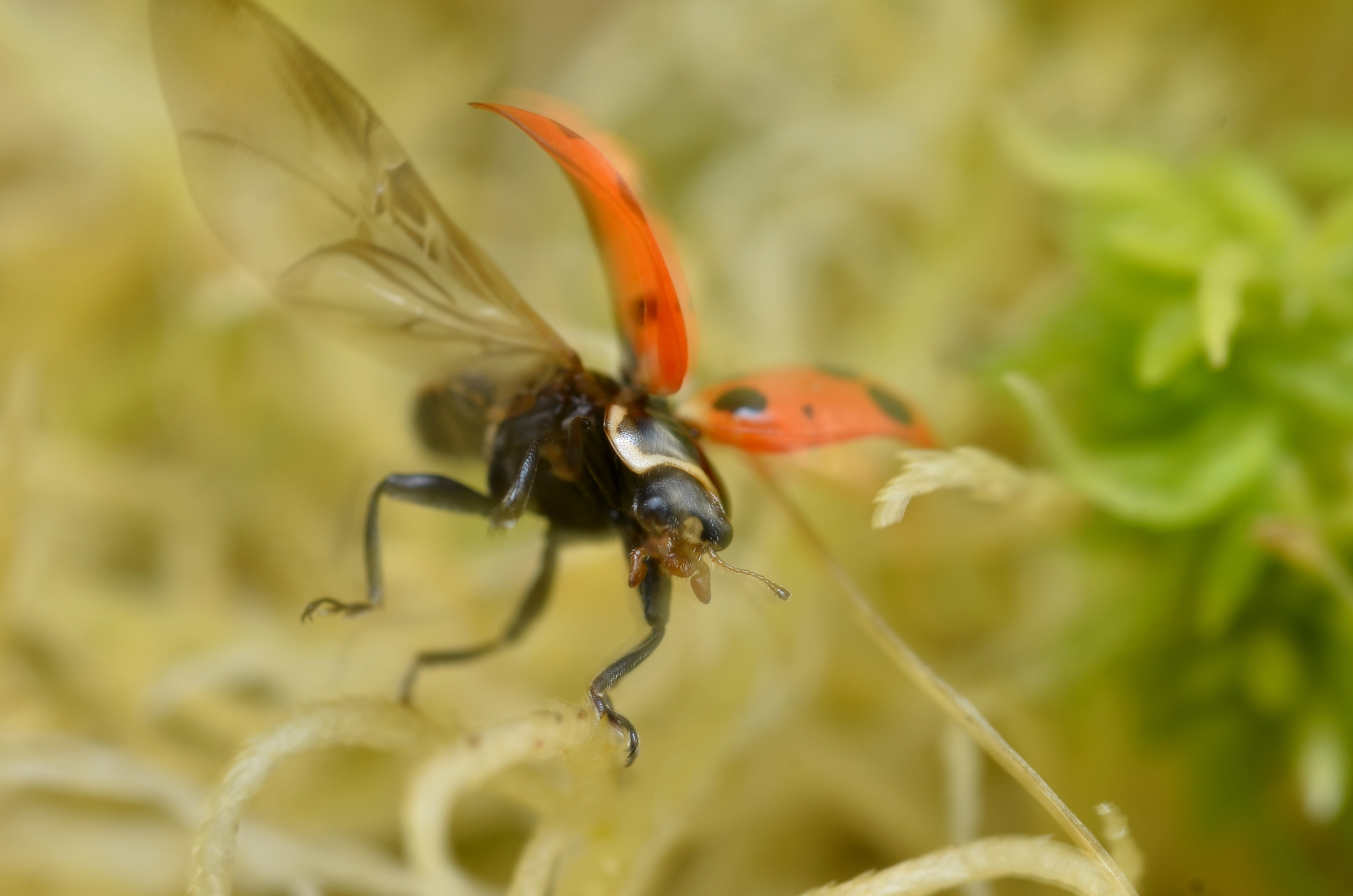 Hippodamia septemmaculata, a very rare boreo-montane ladybird species living only in peat bogs.